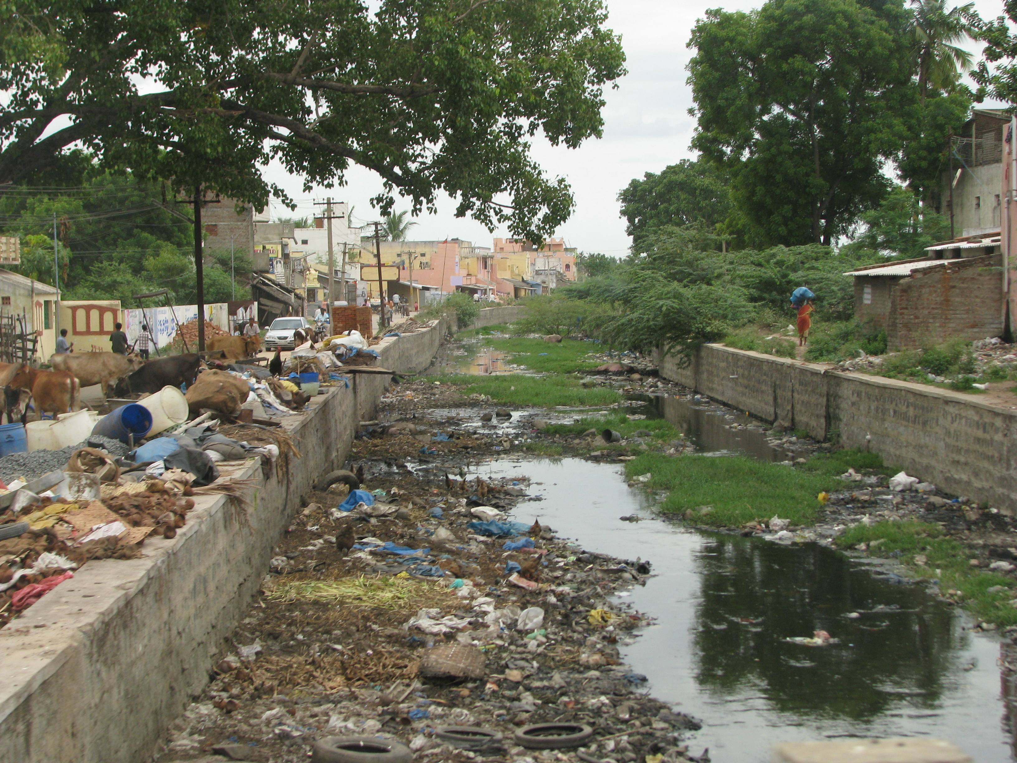 The less beautiful side of India. This canal running through the heart of Kancheepuram town overflows with garbage and pollution. Pollution remains a growing and significant issue in both rural and urban areas.